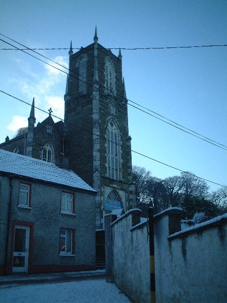 St Mary's Collegiate Church, Youghal